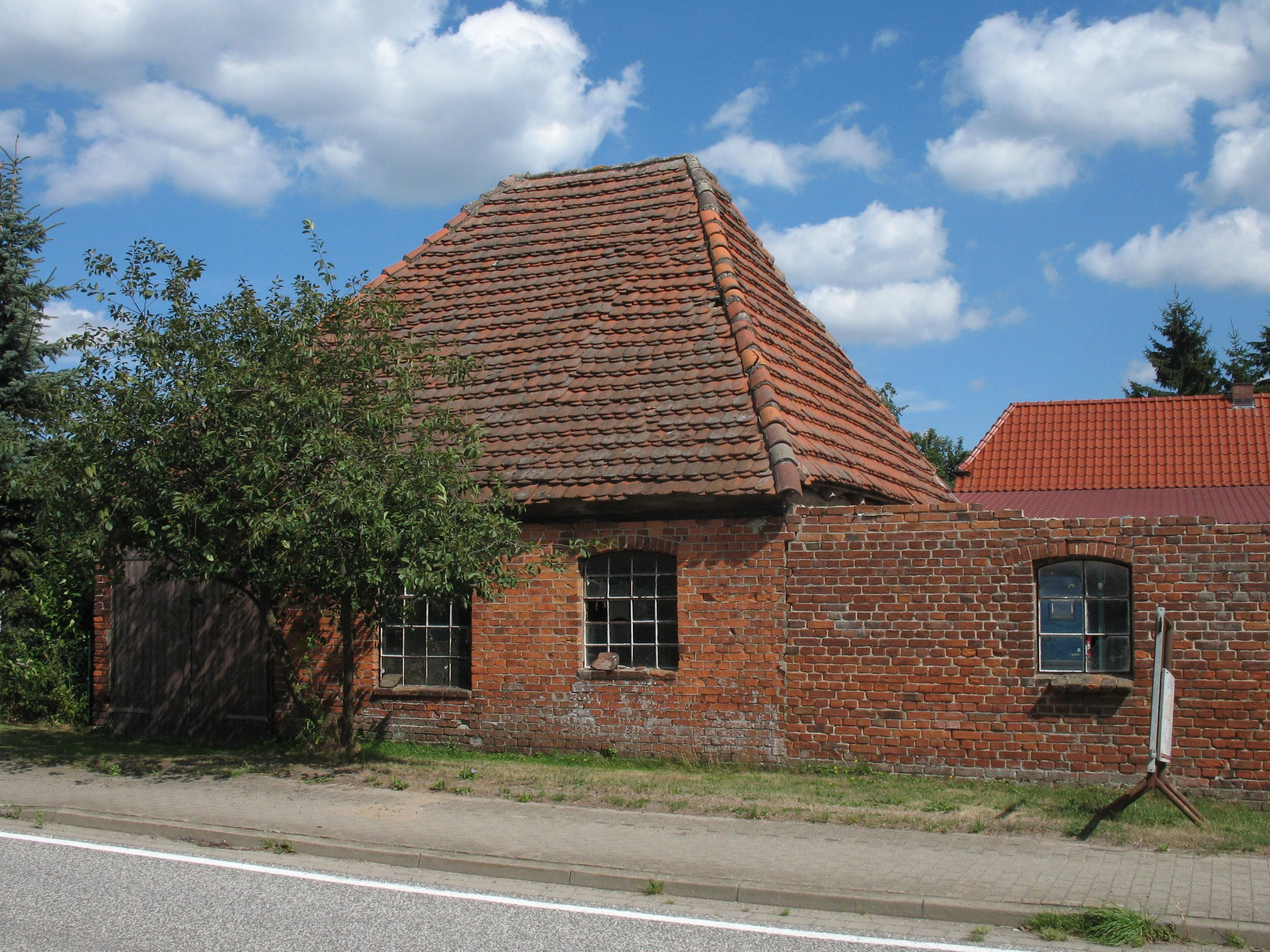 Former forge in Ruester Krug in Mestlin in Mecklenburg-Western Pomerania, Germany